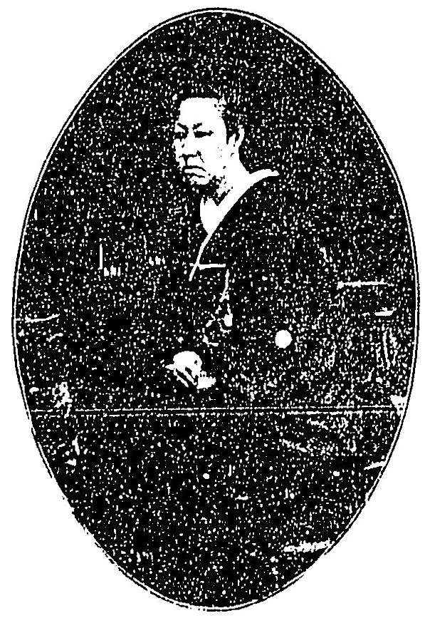 The photograph of Arima Haruko.